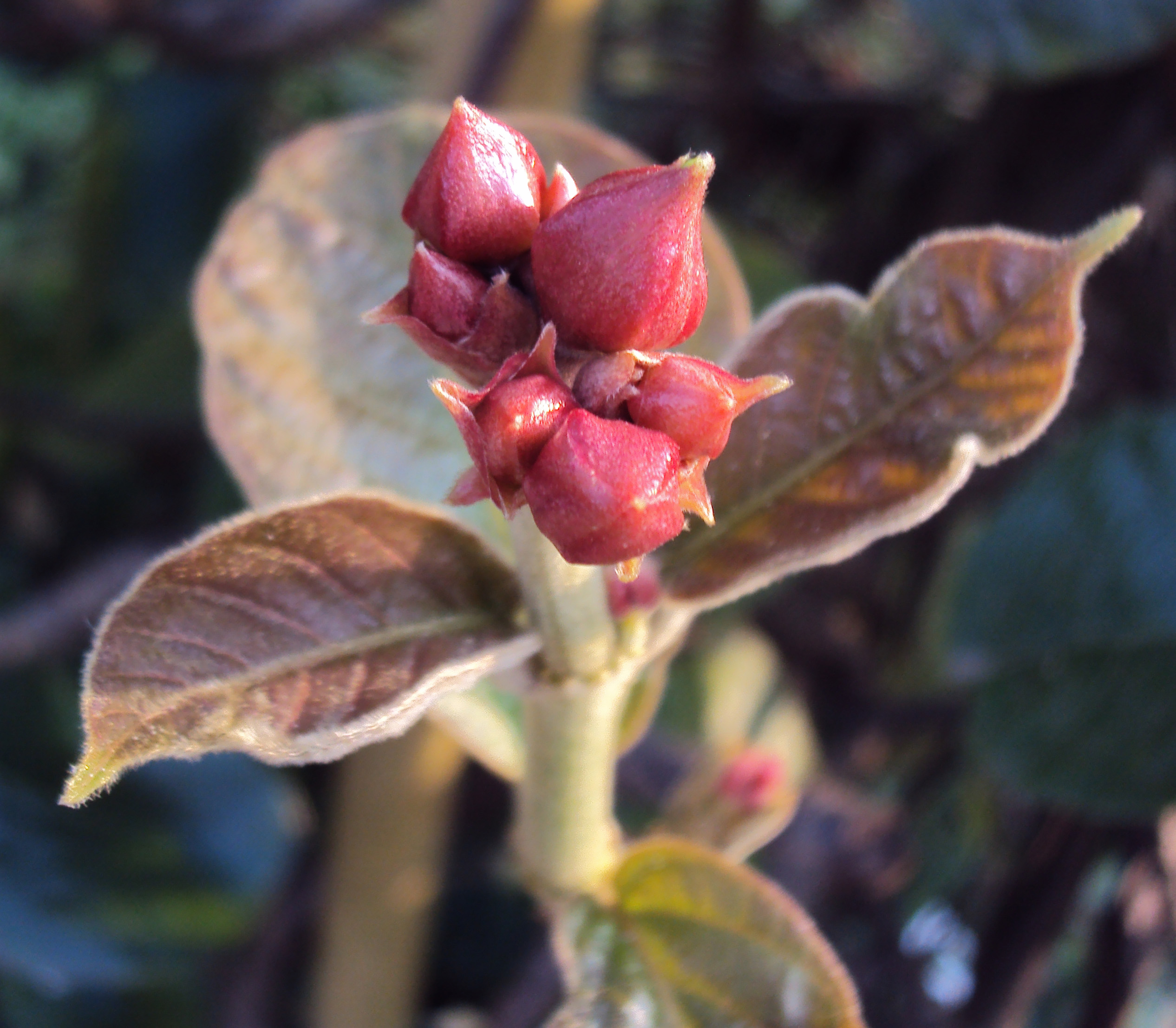 Chonemorpha fragrans - Franginpani vine buds - പെരുങ്കുരുമ്പ